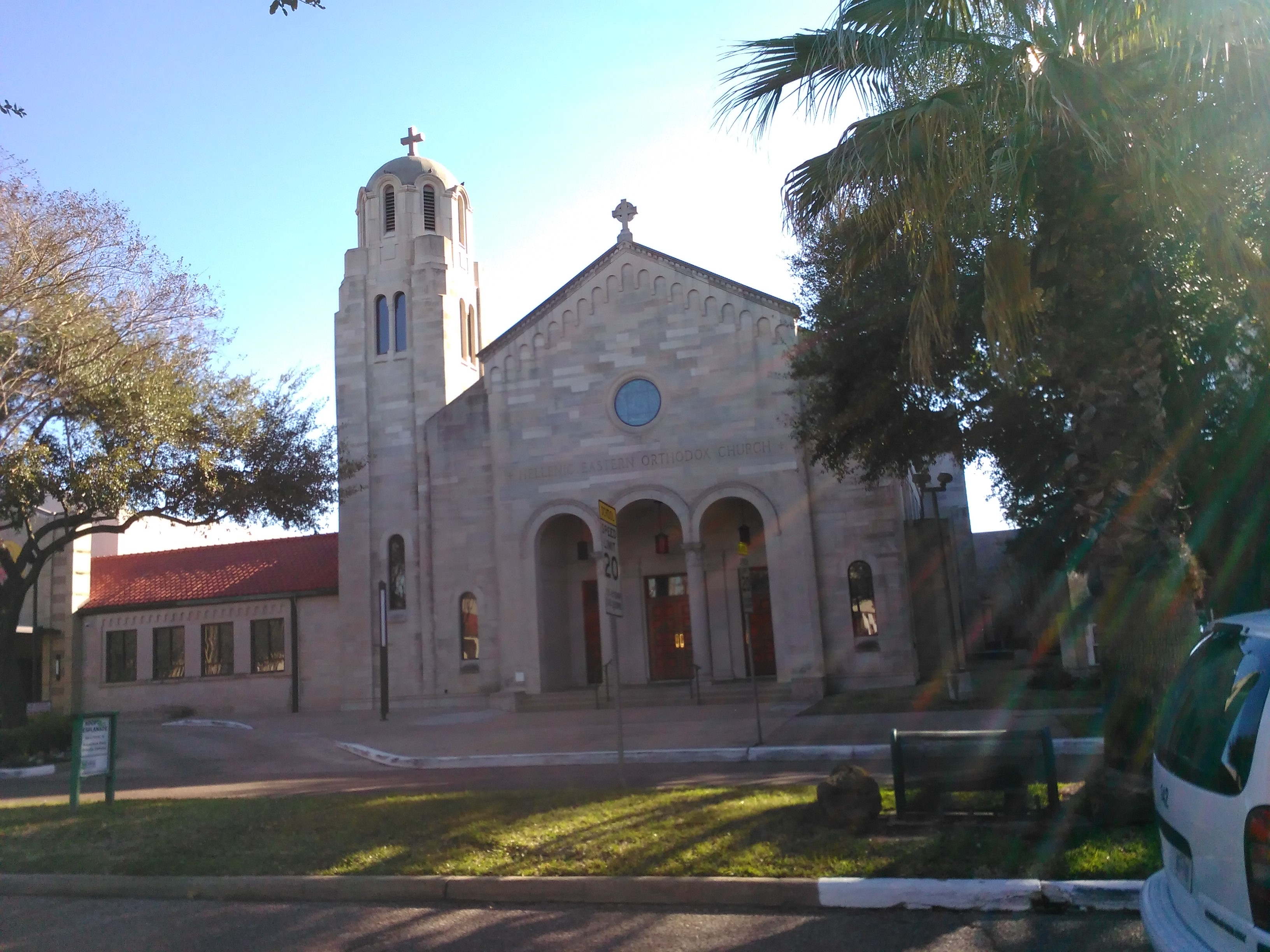 Annunciation Orthodox Church in Houston